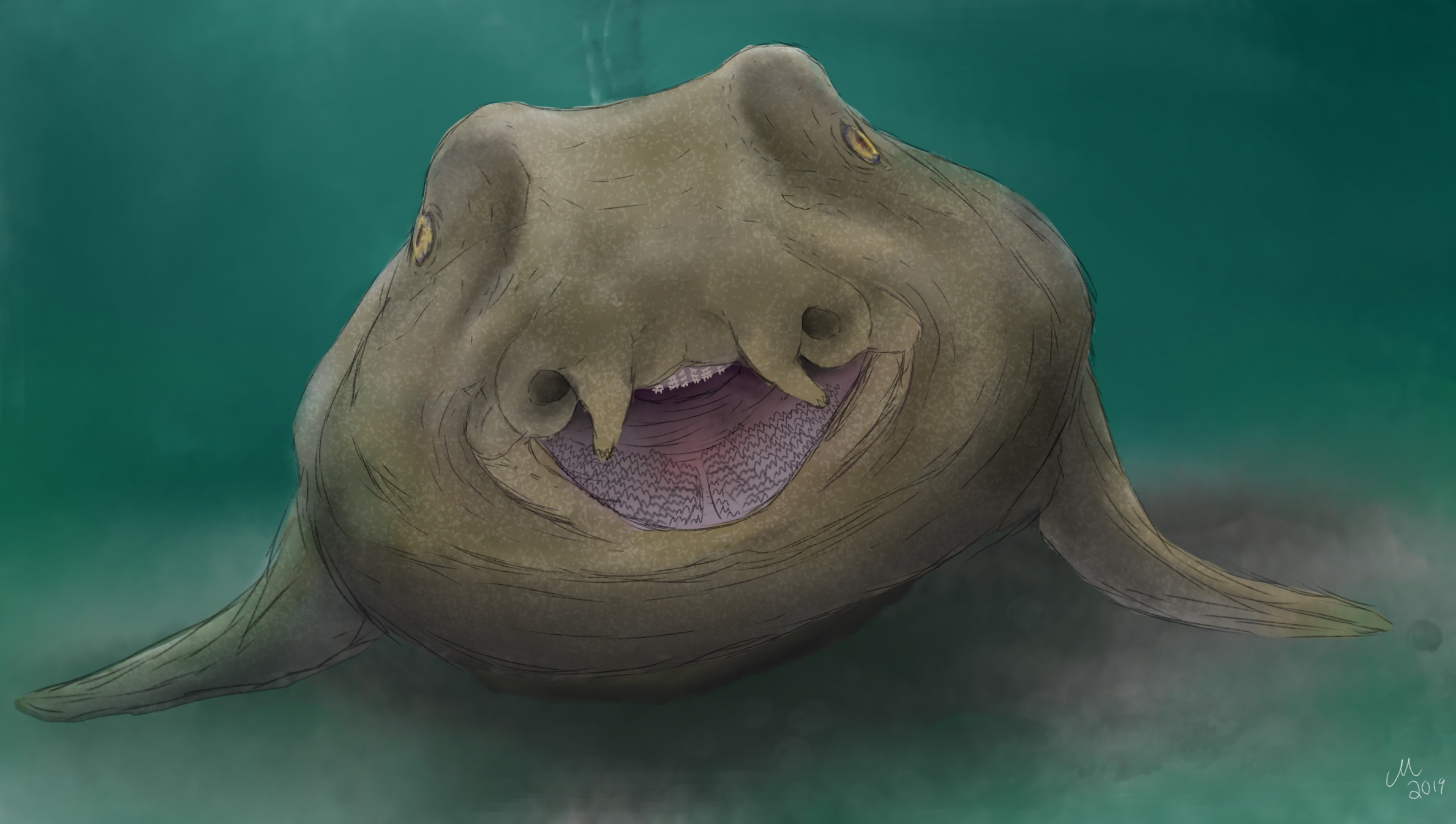 A reconstruction of Hybodus fraasi.